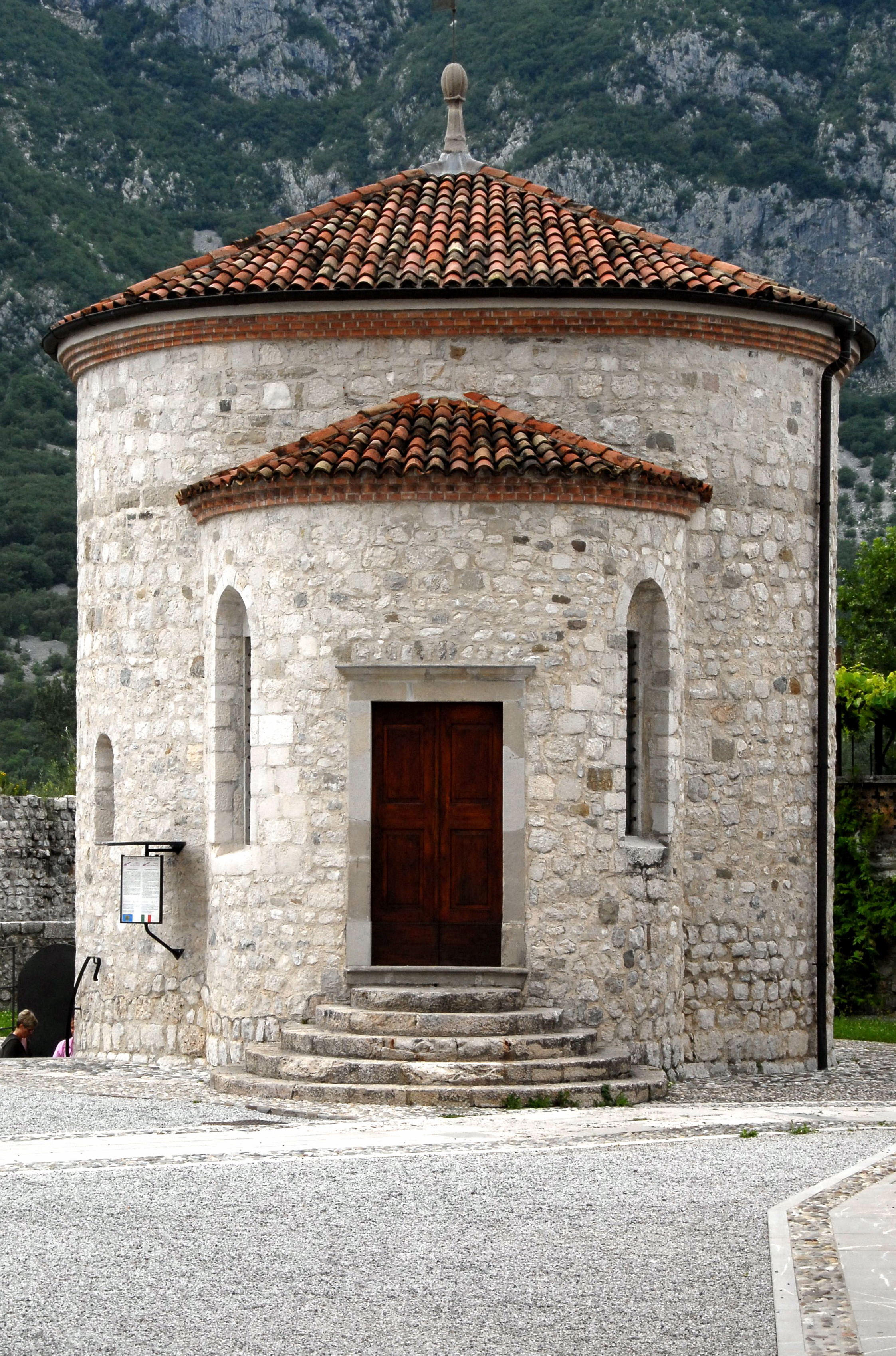 Roman cemetery chapel nearby cathedral Sant'Andrea Apostolo in Venzone, Tagliamento valley, Friuli-Venezia Giulia, Italy, EU